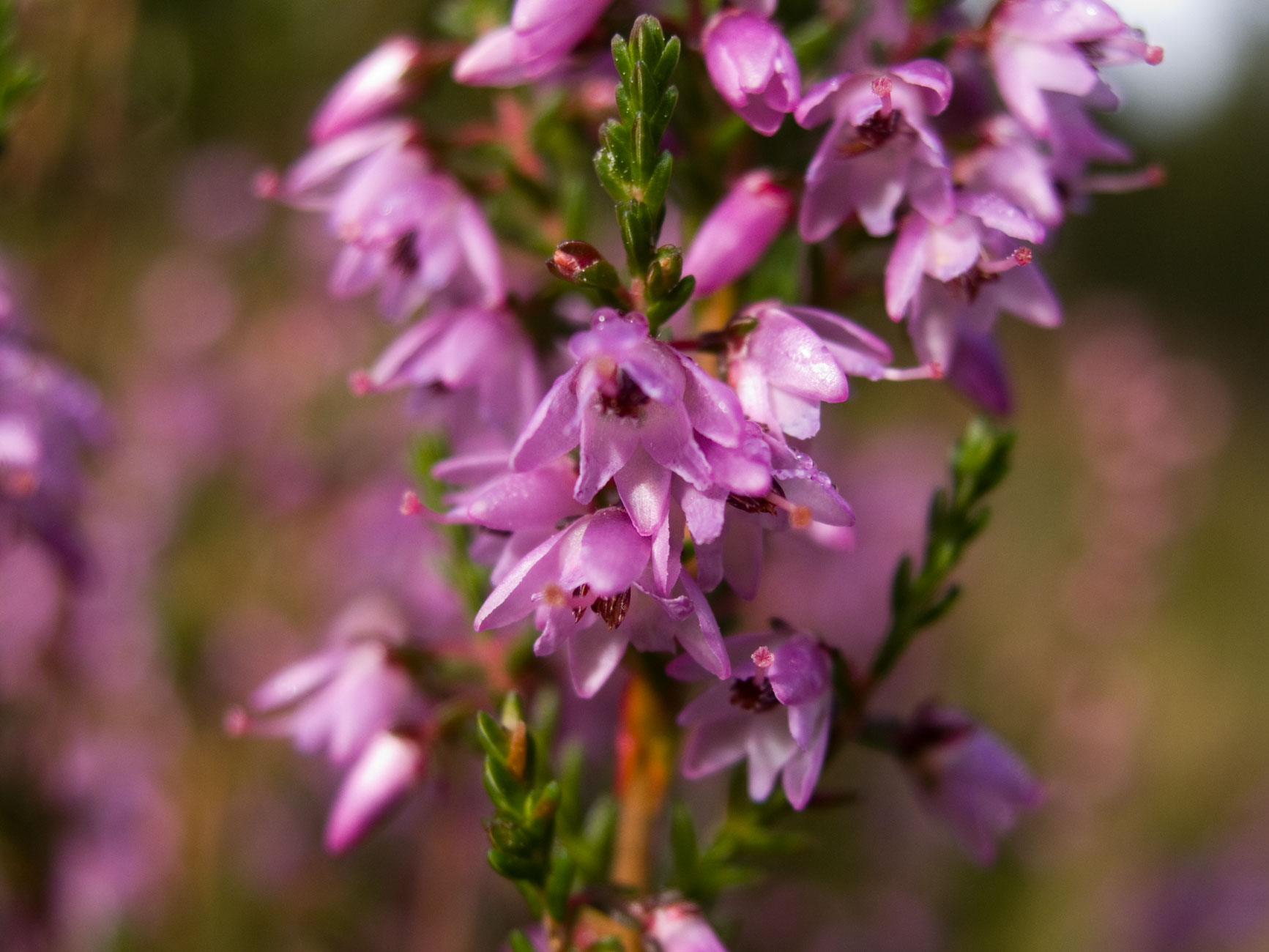 Image of flowering Calluna vulgaris, photographed in southern Sweden. Created by David Remahl, 2005-09-16, 10:37 CEST in Landvetter, Sweden.